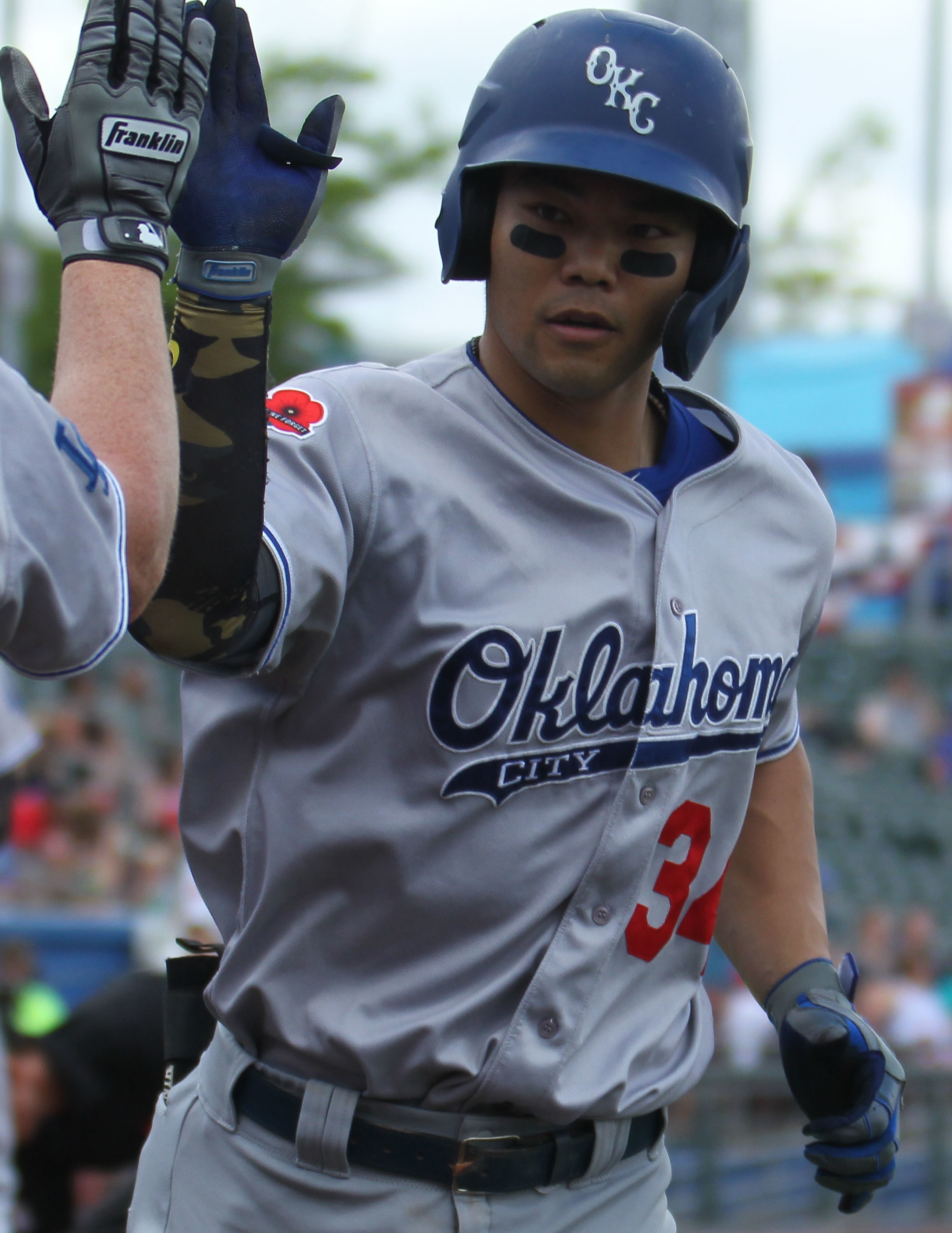 Connor Joe of the Oklahoma City Dodgers high fives a teammate during a 2019 game at Werner Park in Nebraska.